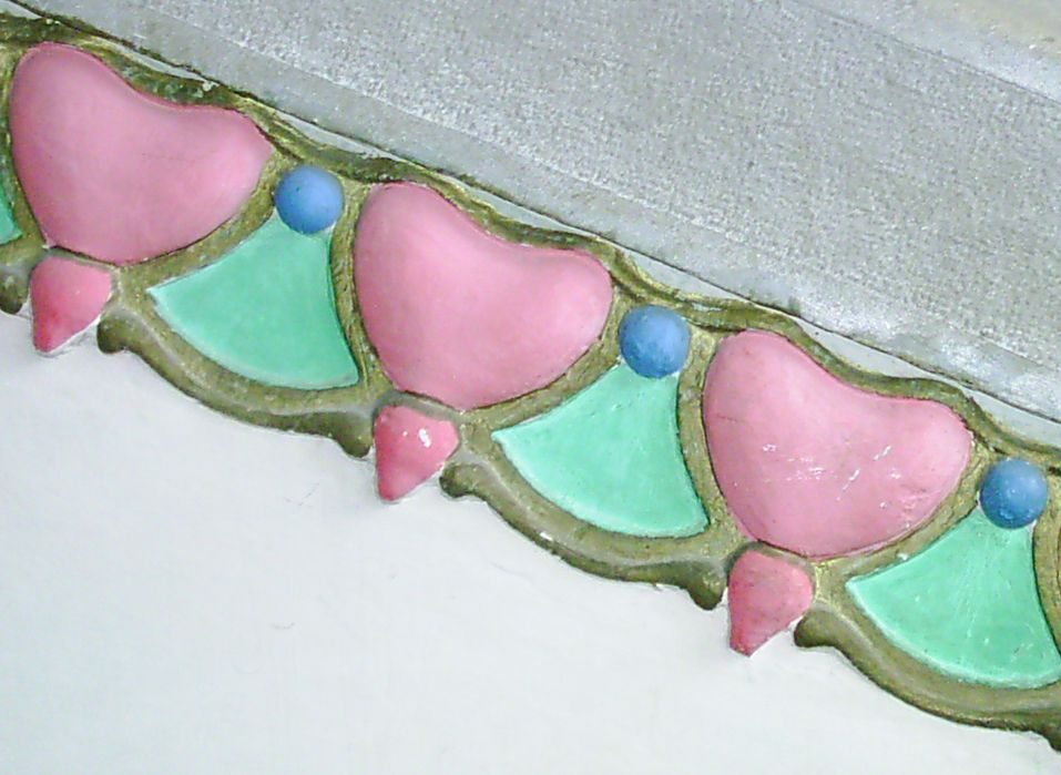 Detail of the staircase of Town Hall of Kiskunfélegyháza.